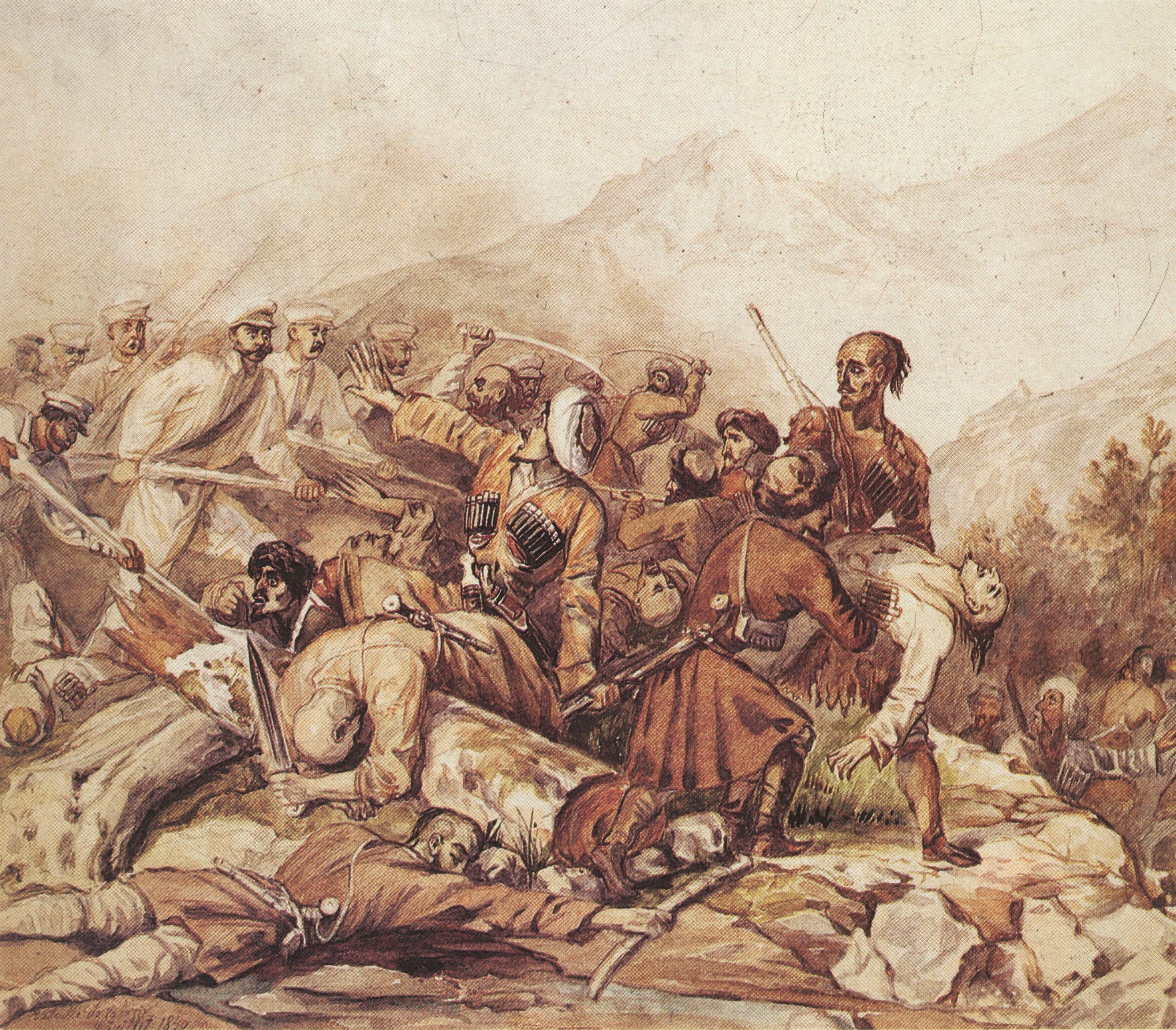 battle of Valerik, 1840